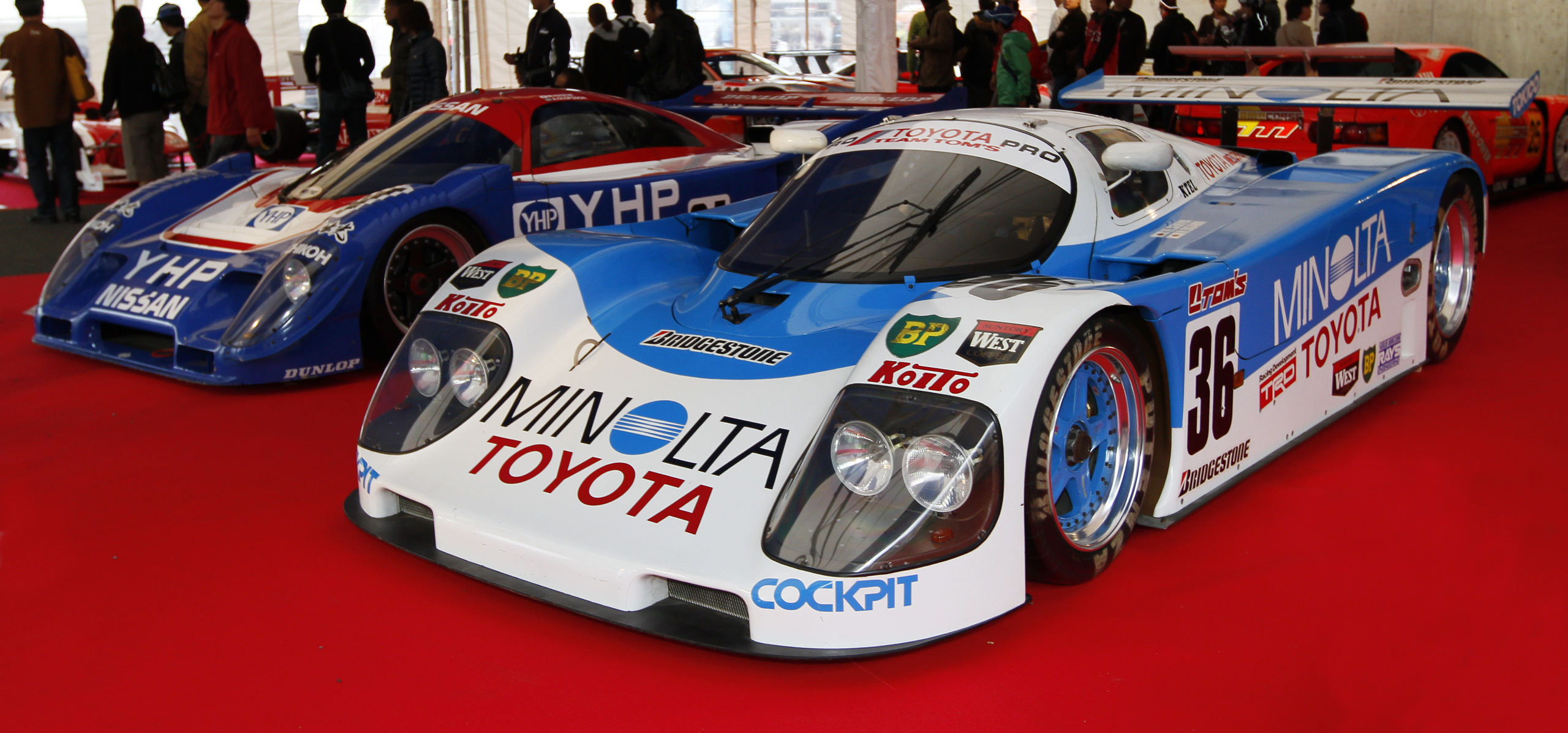 2010 JAF Grand Prix: Toyota 90C-V and Nissan R90CP